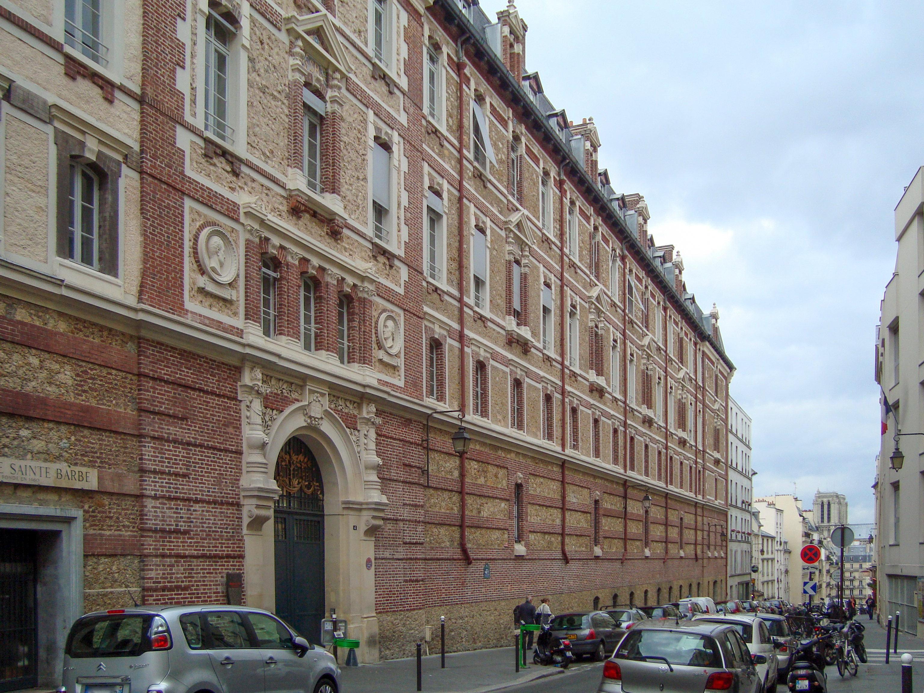 General view of the Collège Sainte-Barbe in Paris founded in 1460.